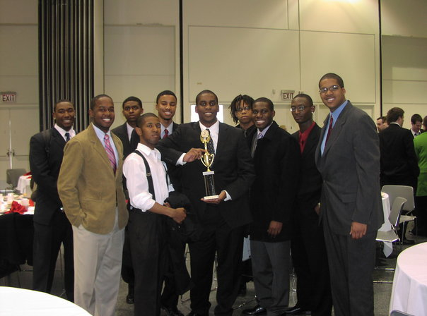 A picture of the 2005-2006 Morehouse College Mock Trial team after winning "Honorable Mention" at the American Mock Trial Association's 2006 National Championship Tournament in Des Moines, Iowa.